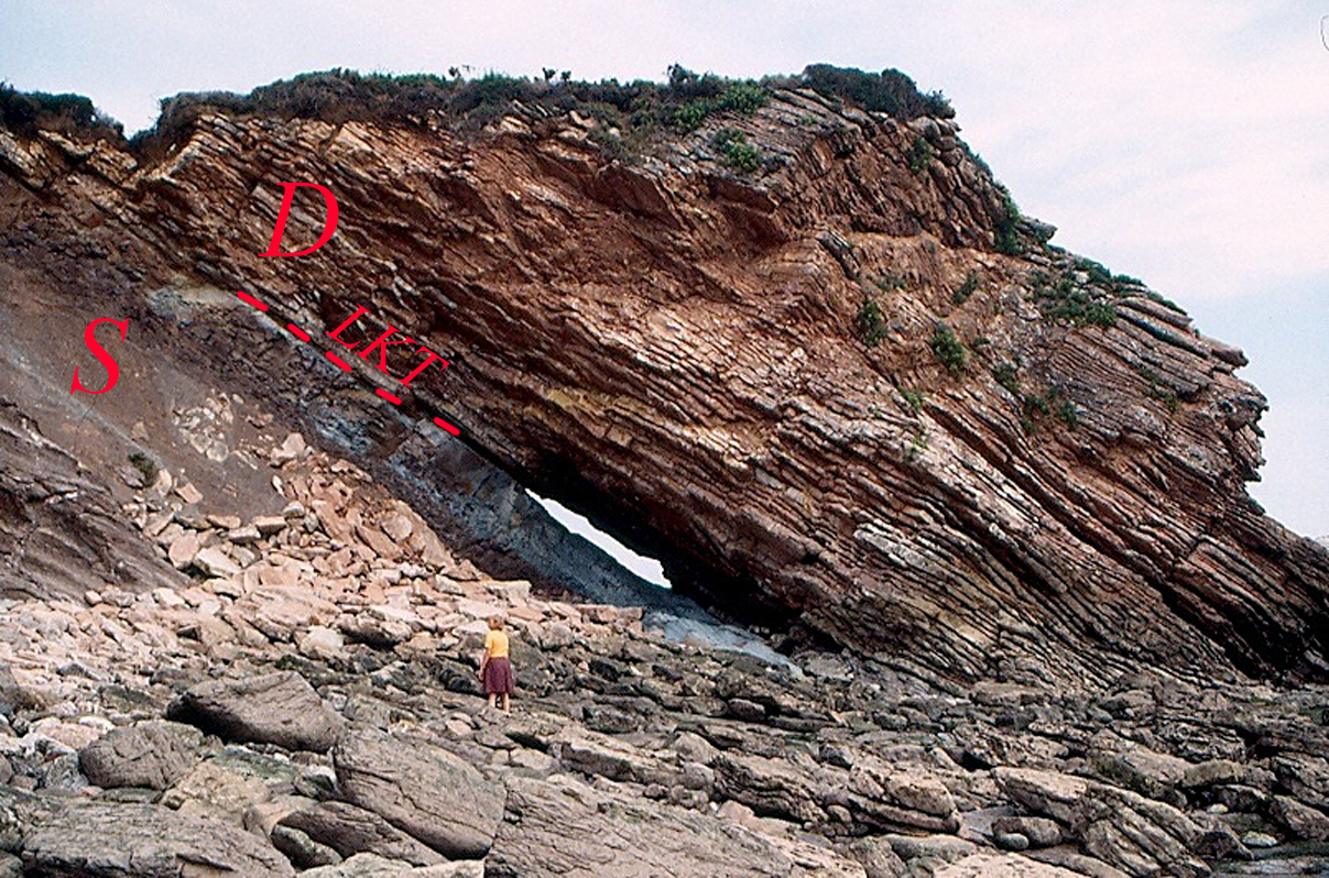 Lower Eocene layers (Danian = D) are superimposed on upper Cretaceous (Senonian = S) via the "iridium layer" (LKT = KTB, Cretaceous-Tertiary Boundary). Photo taken in august 1996 at Loia Bay (Hendaye, Pyrénées Atlantiques, France)